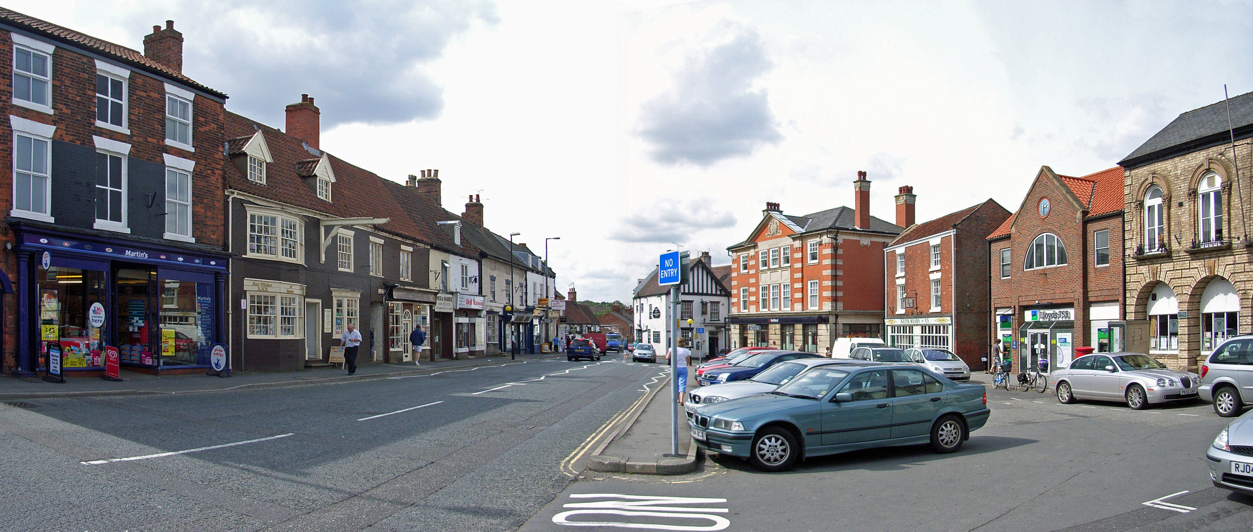 Panorama made from two frames shot at 28mm on a Ricoh R3.